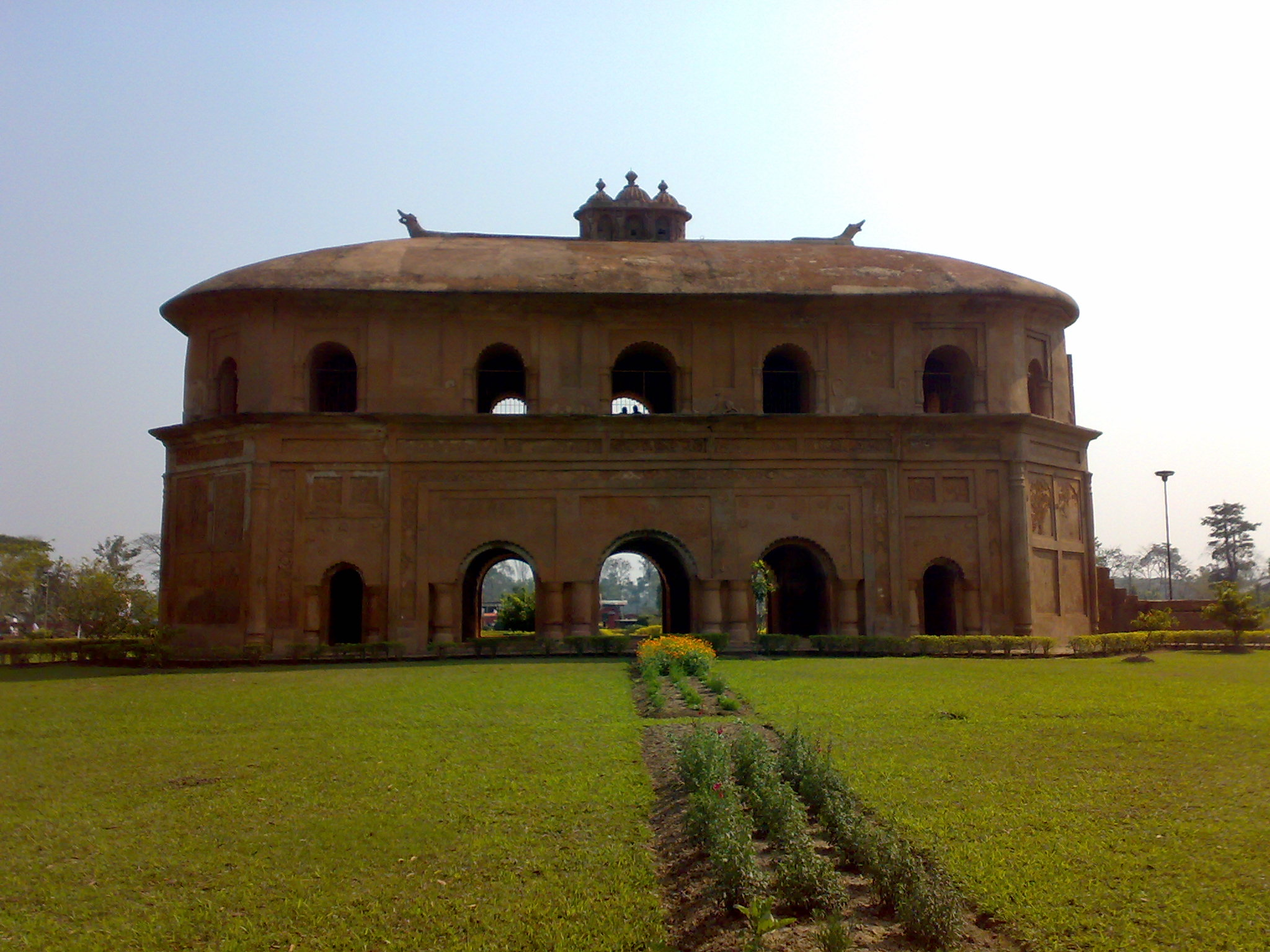 View of the Rang Ghar from the gardens